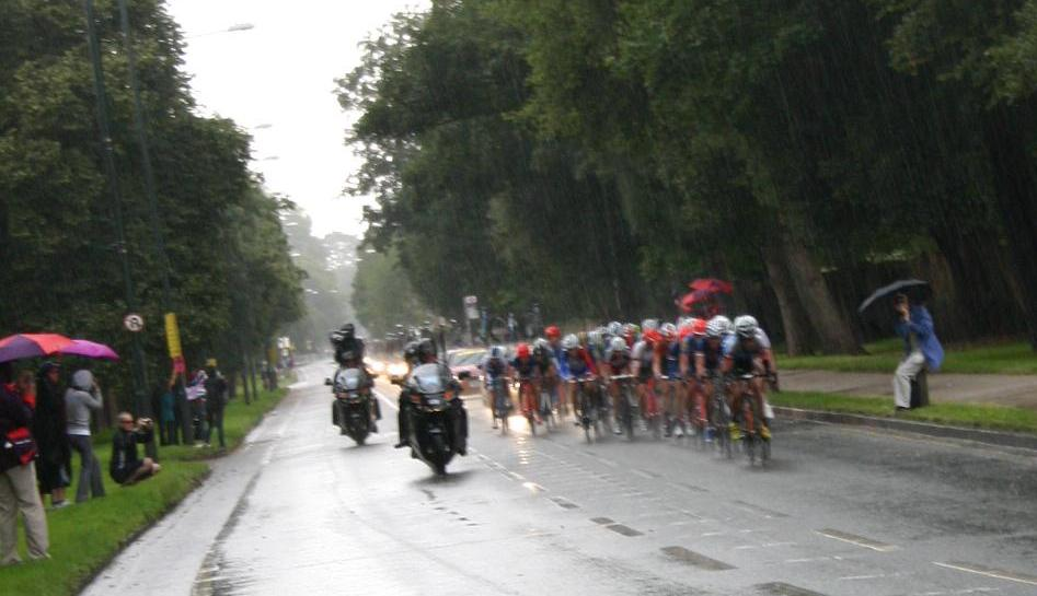 2012 women's cycle race on the Hampton Court road showing some riders and their tail of support vehicles